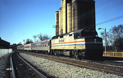 The northbound Gulf Breeze at Montgomery station in June 1990